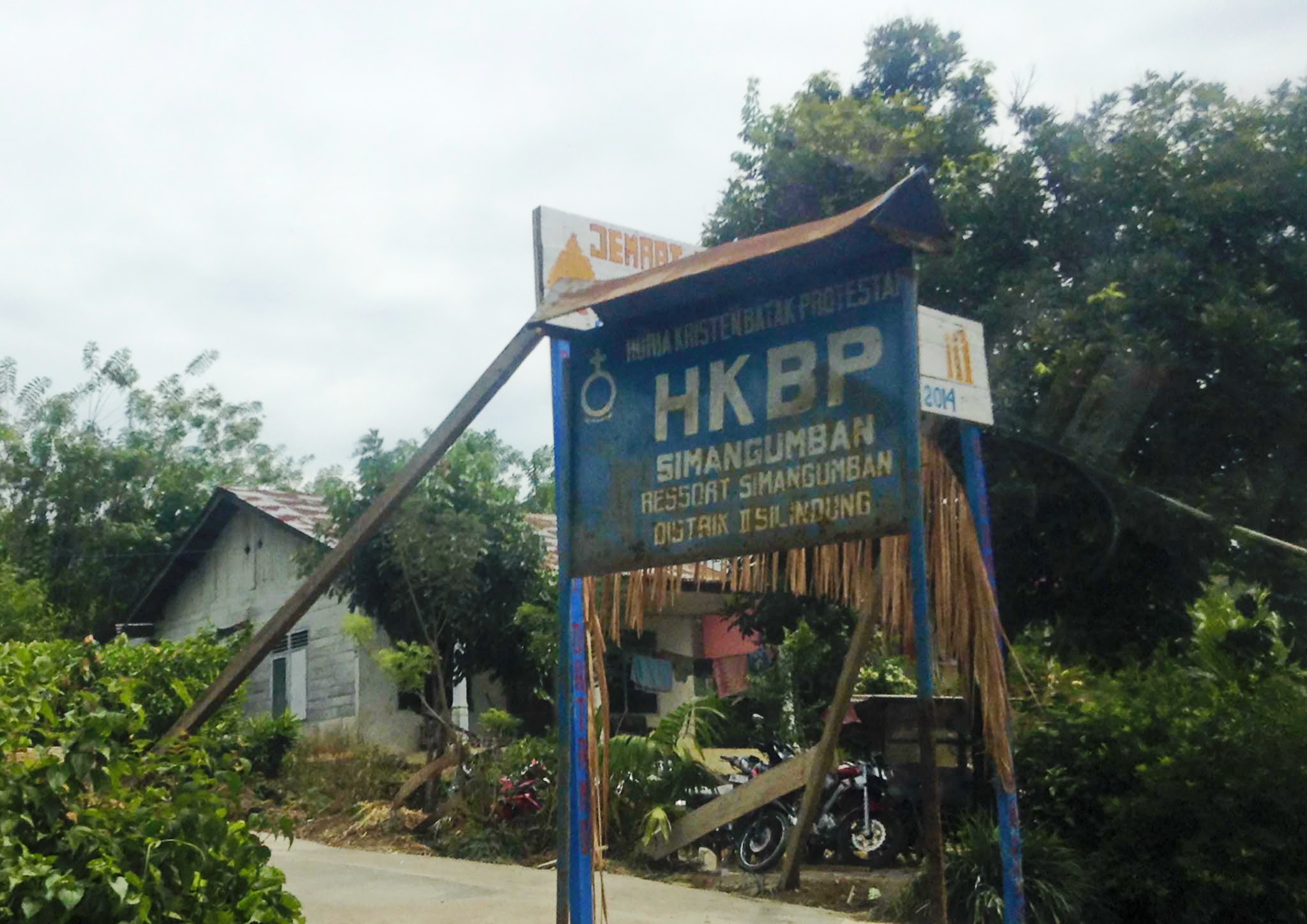 HKBP Simangumban, church in Simangumban, North Tapanuli